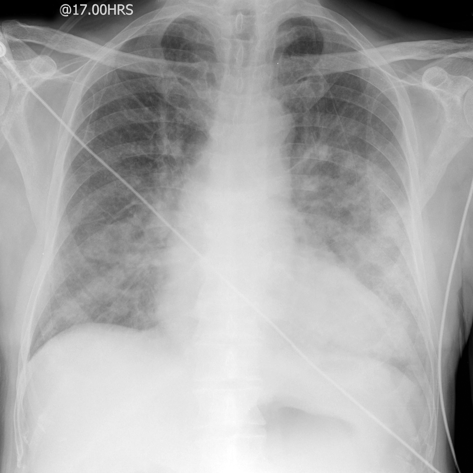 AP portable CXR of a patient in acute pulmonary oedema. Image from case here. Image courtesy of Dr Jeremy Jones